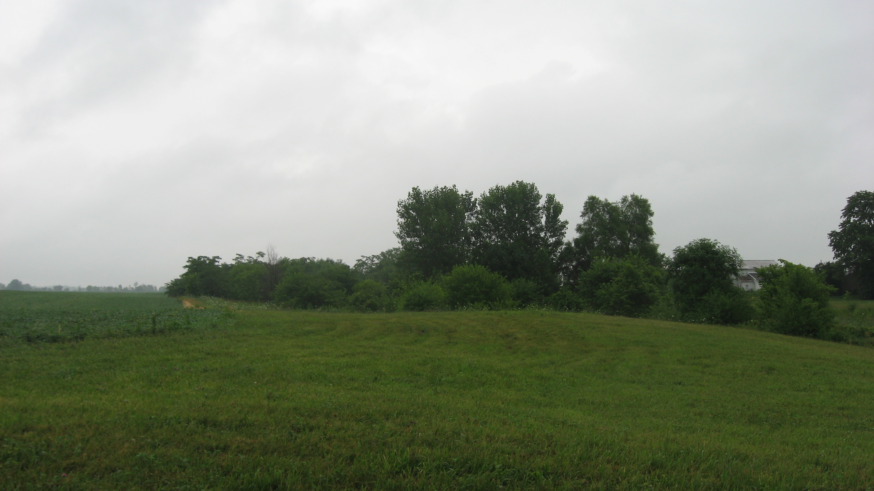 Fields at the Cary Village Site, located on the eastern side of Smith-Calhoun Road southeast of Plain City in Darby Township, Madison County, Ohio, United States. Occupied by Paleoindian, Archaic, Hopewellian, and Fort Ancient peoples, the fields are an archaeological site and have been listed on the National Register of Historic Places.